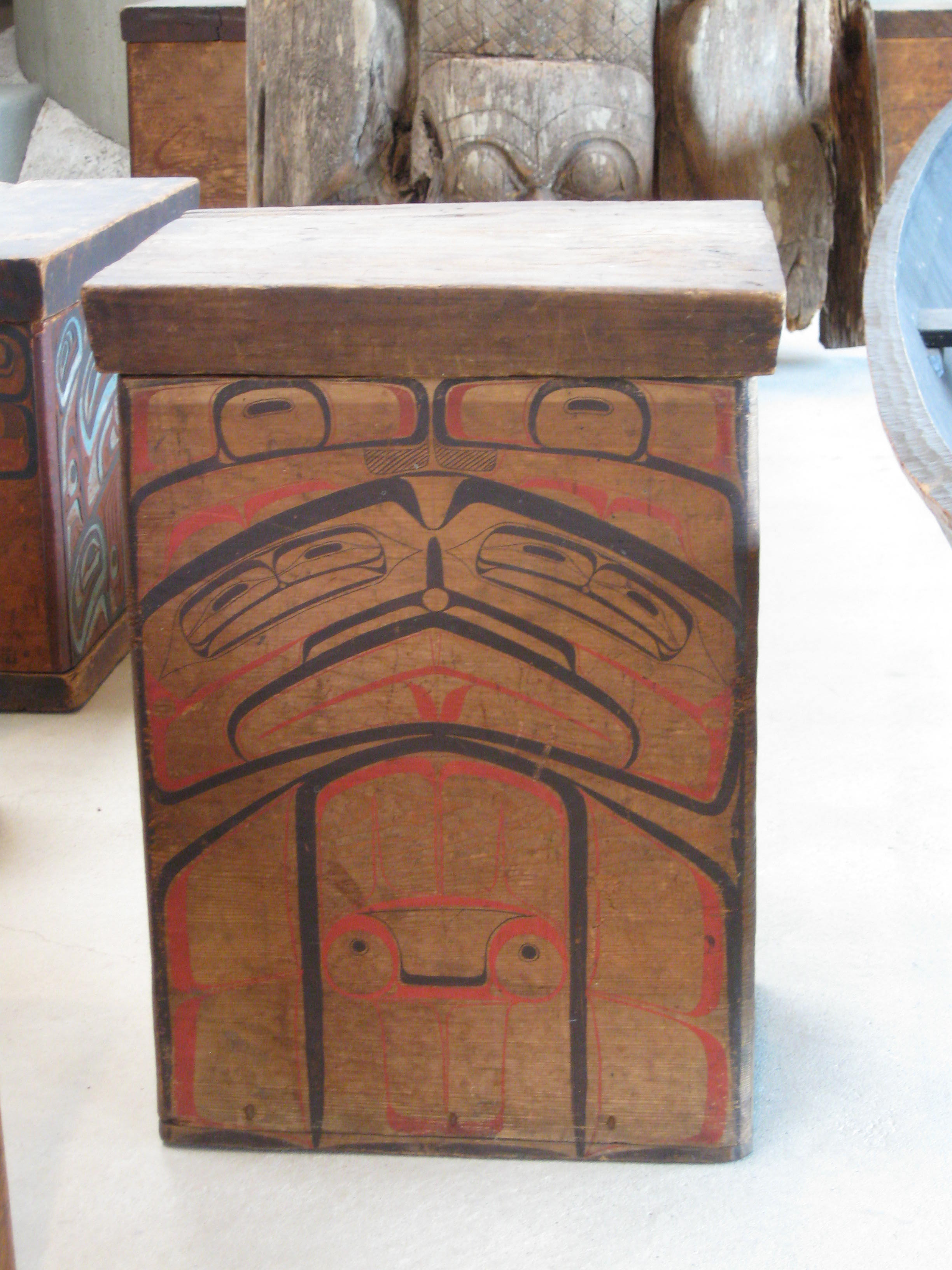 A red cedar native Indian Tsimshian Bentwood box. It dates from the 1880s and was purchased by the UBC Museum of Anthropology in 1988 where it is currently on display.